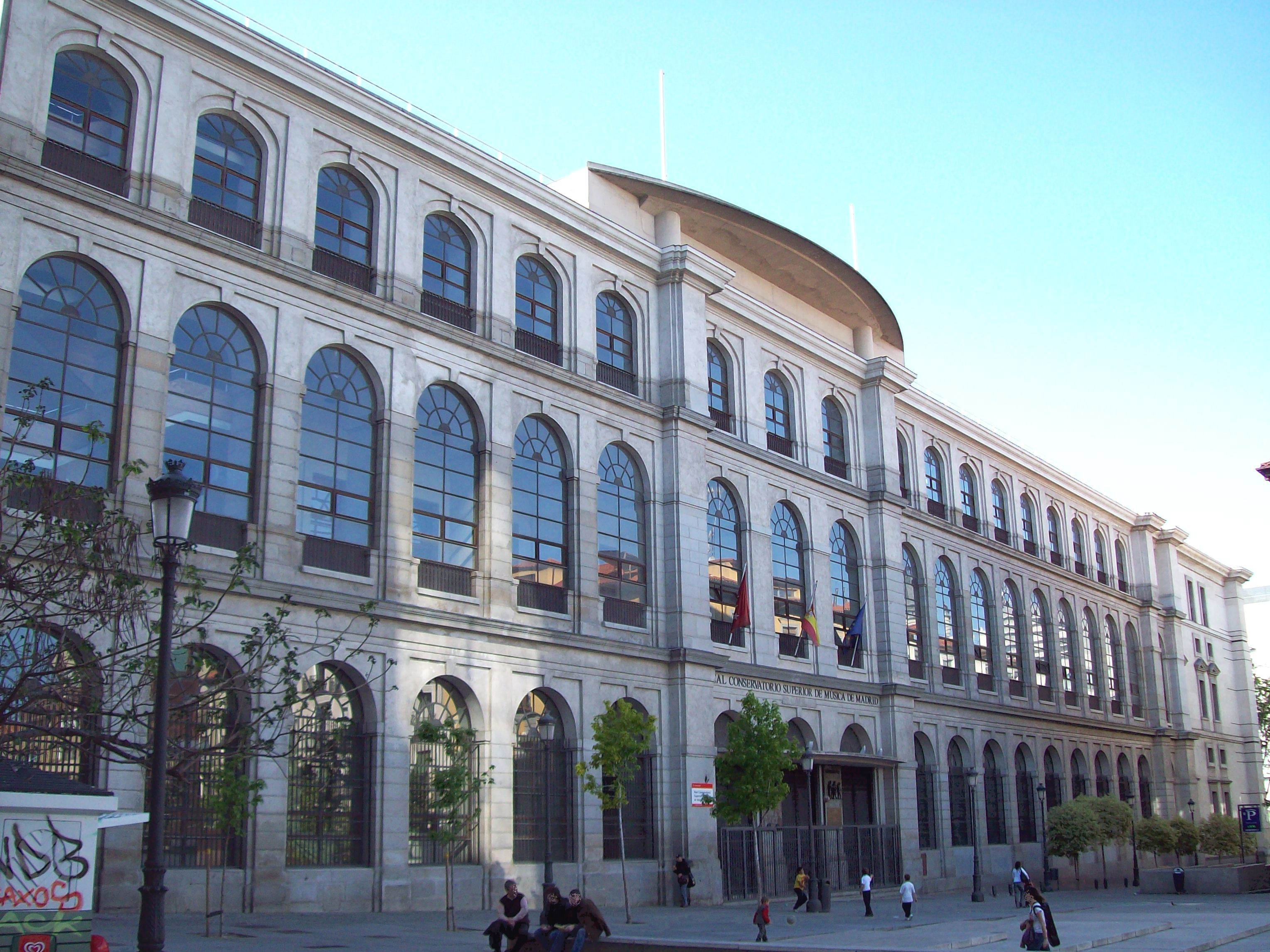 Royal Conservatory of Madrid (Spain), at 2 Calle del Doctor Mata (street) in Centro district. Building was projected in 1769 by architect Francesco Sabatini and built between 1769 and 1788 as San Carlos Hospital. It was remodeled as a conservatory from 1987 to 1990.